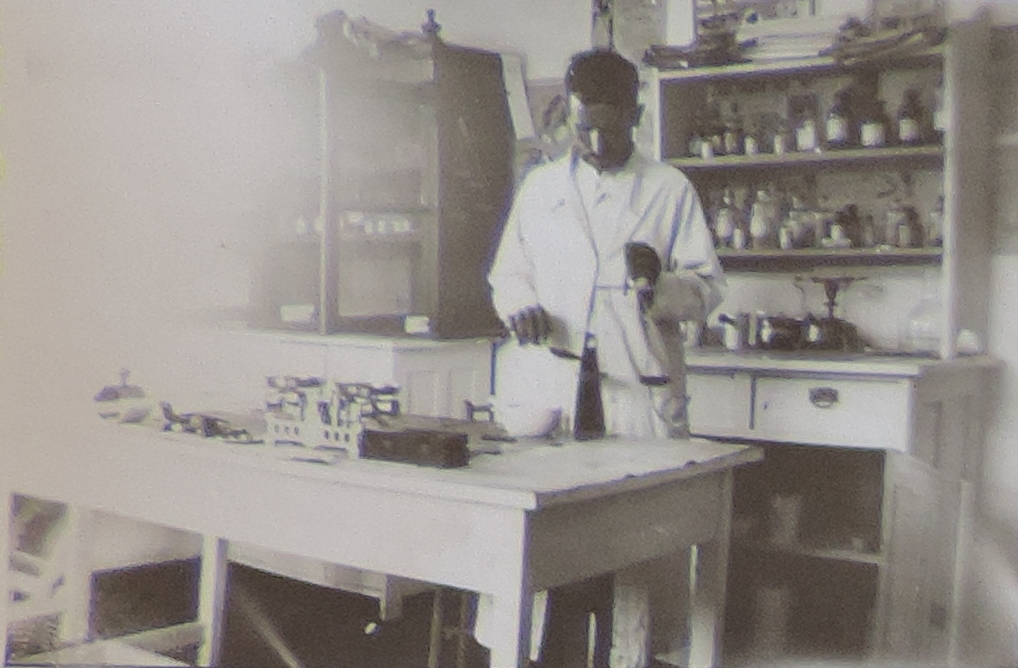 A photo album by doctors, paramedics and midwives at the Kyustendil Sanitary region in 1936. It was compiled by Dr. A. Ogoyski. Handed to His Royal Highness Simeon Knyaz Tarnovski.